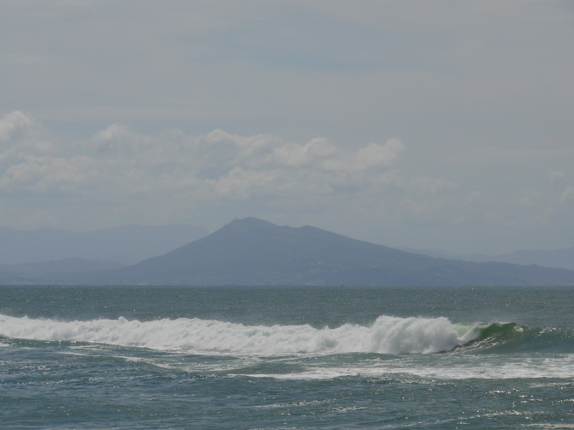 Jaizkibel (in Spain) seen from Anglet (in Pyrénées-Atlantiques, France).